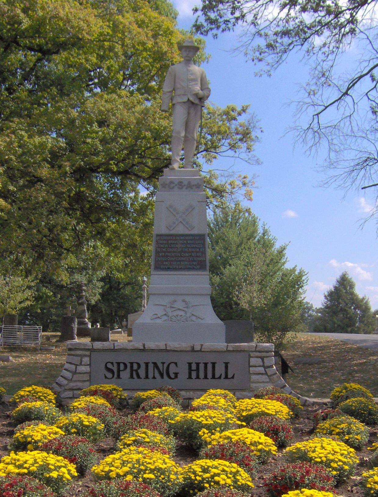 Spring Hill Cemetery, in Harrodsburg, Kentucky, entrance and Confederate Soldiers of America Memorial.